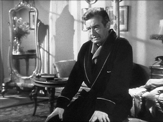 Screenshot of Claude Rains from the film Notorious